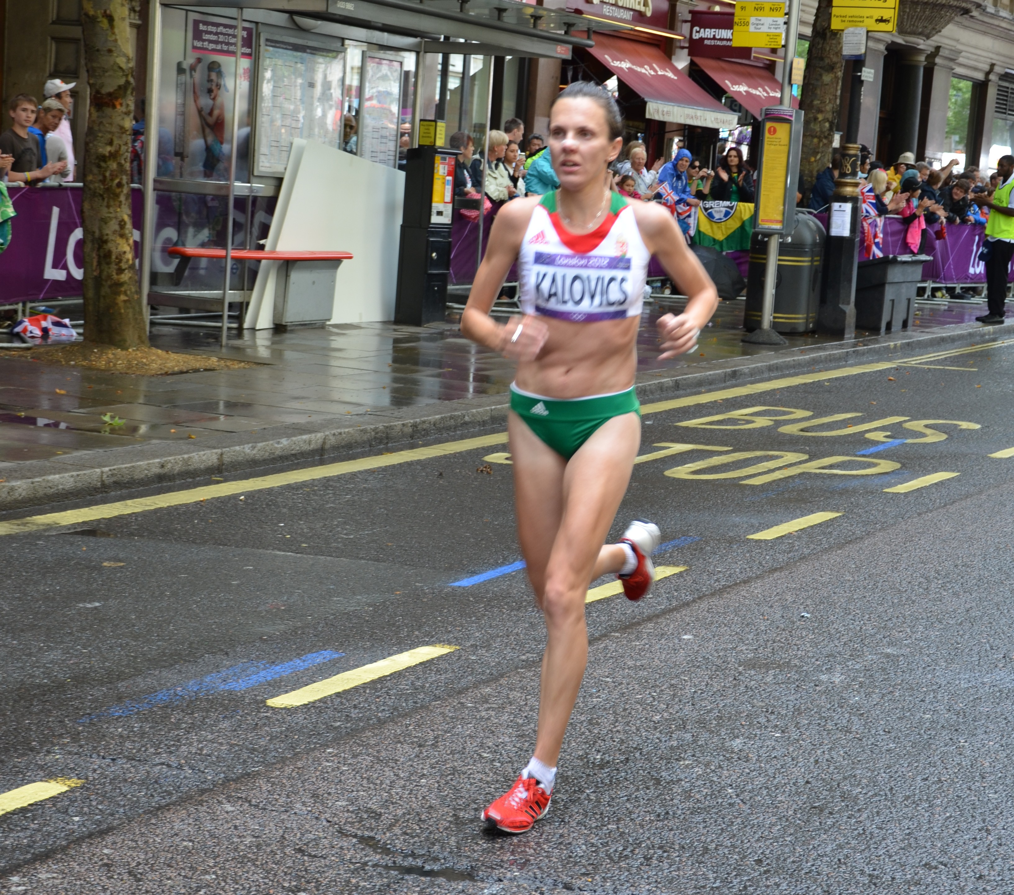 Anikó Kálovics (Hungary) in the marathon (w) at the Olympic Games 2012